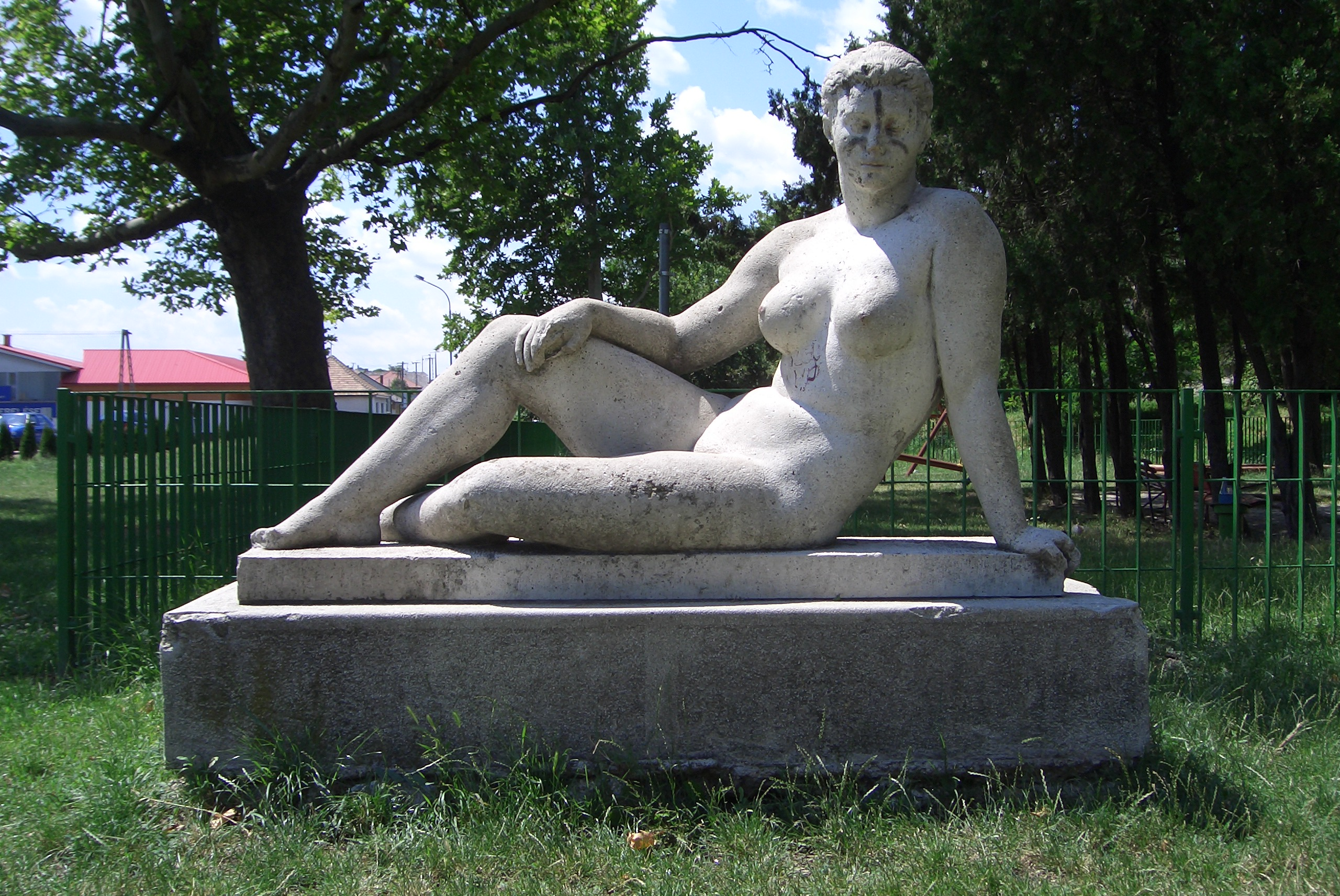 Sculpture on site of the former swimming pool.